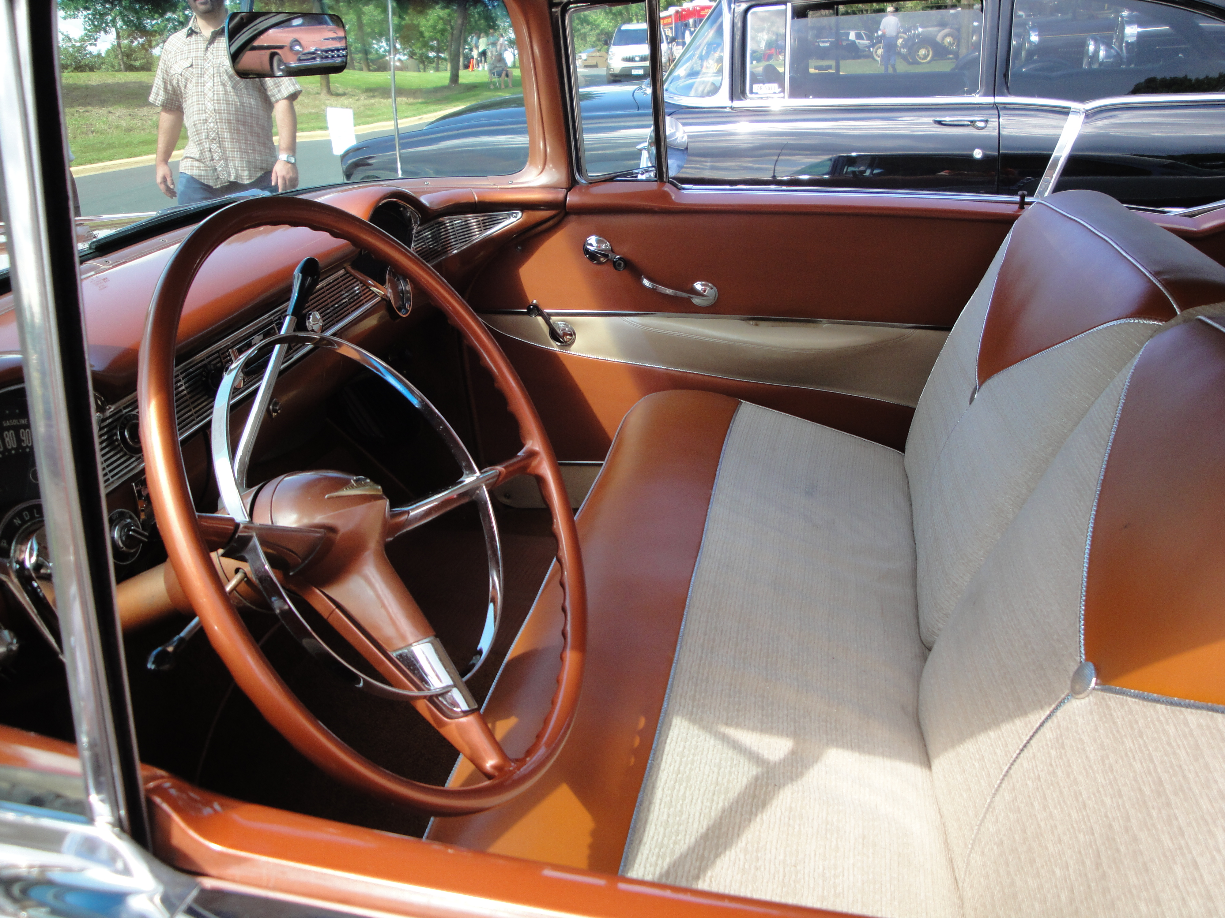 Silver Anniversary New London to New Brighton Antique Car Run Stockyard Days Car Show New Brighton Minnesota